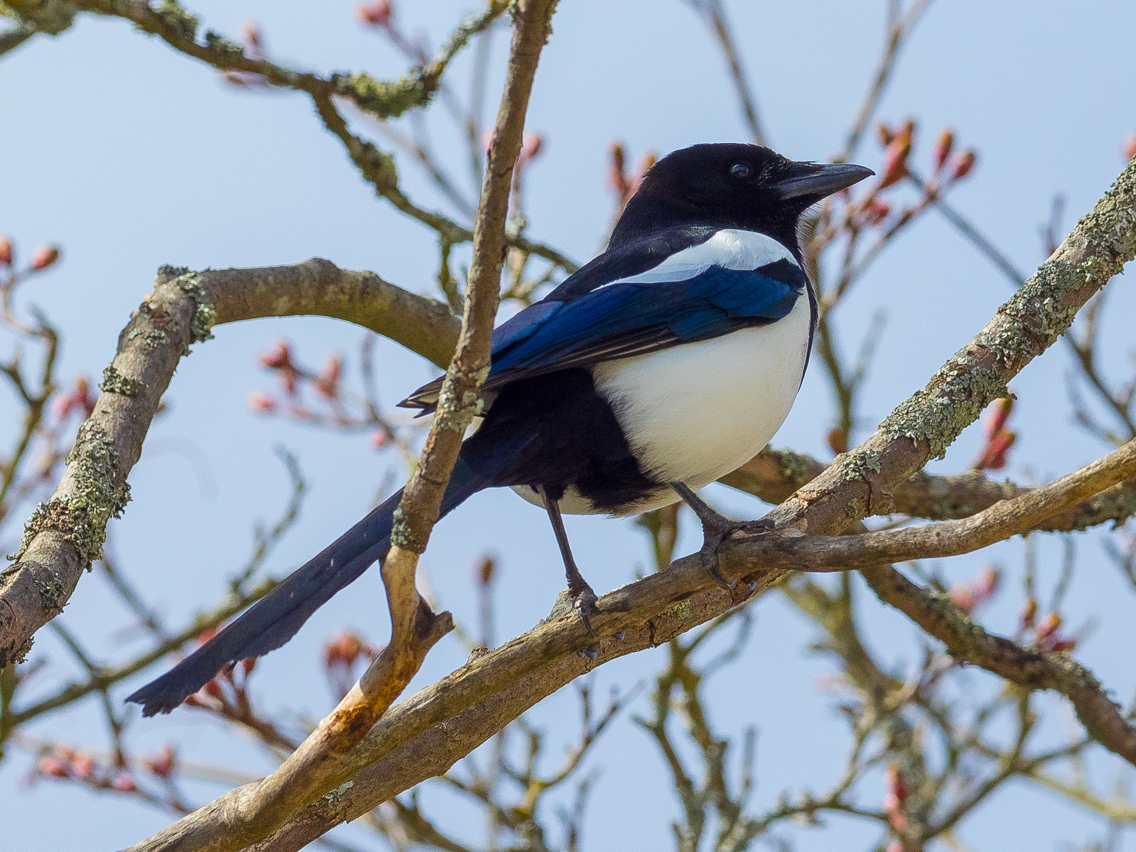 Skata, Magpie, Pica pica, around Vaxholm, Sweden